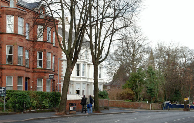 The Malone Road, Belfast (2). See 1603693. The Malone Road - looking towards the city centre from near Wellington Park.